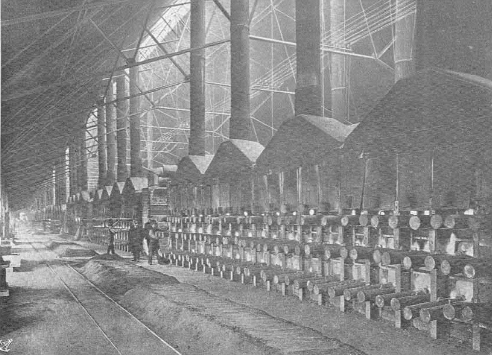 The zinc furnaces in the Bernhardi smelting plant in Szopienice.